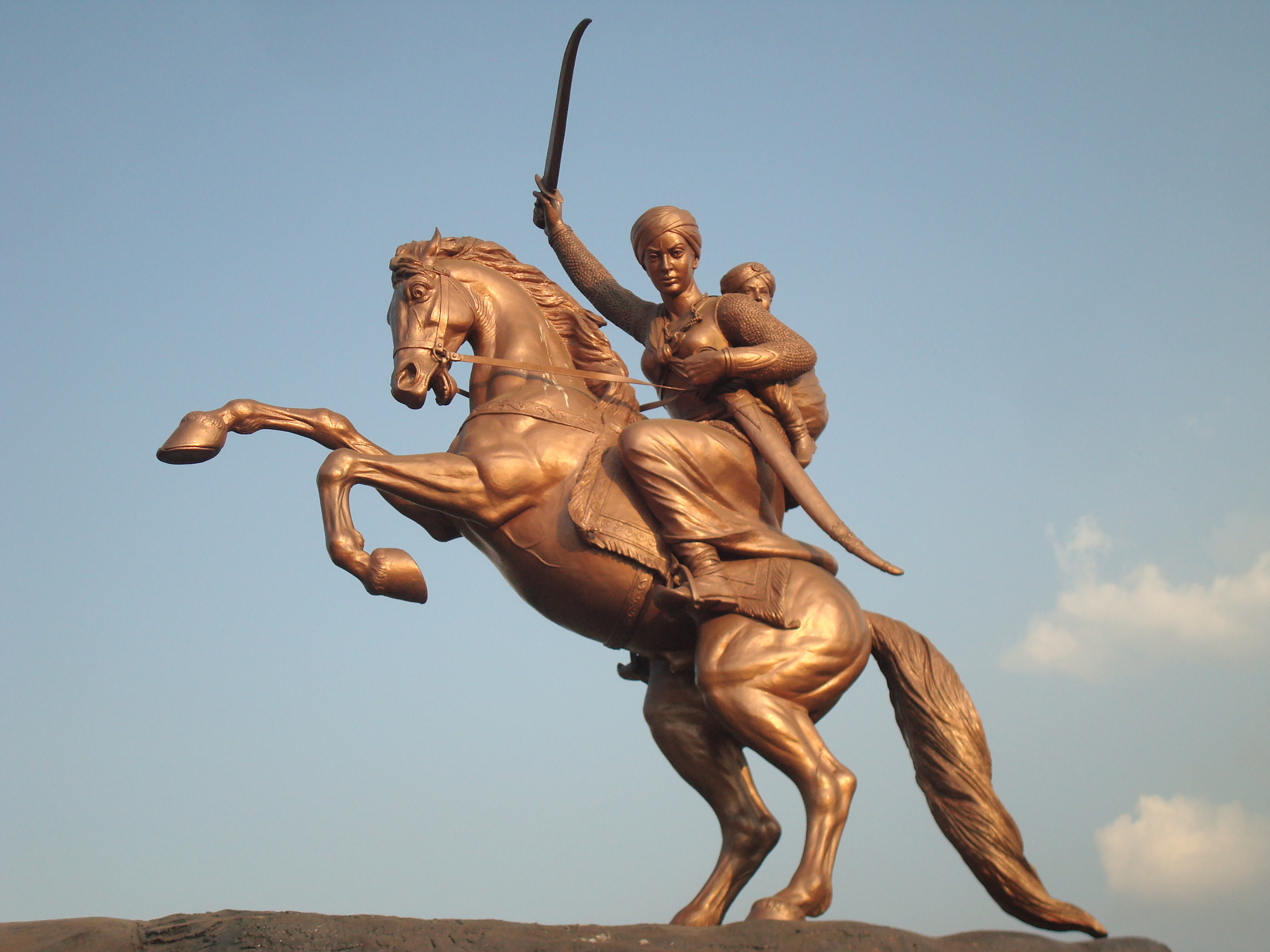 Rani Lakshmibai's statue in Solapur near the Kambar Talav (Sambhaji Talav).